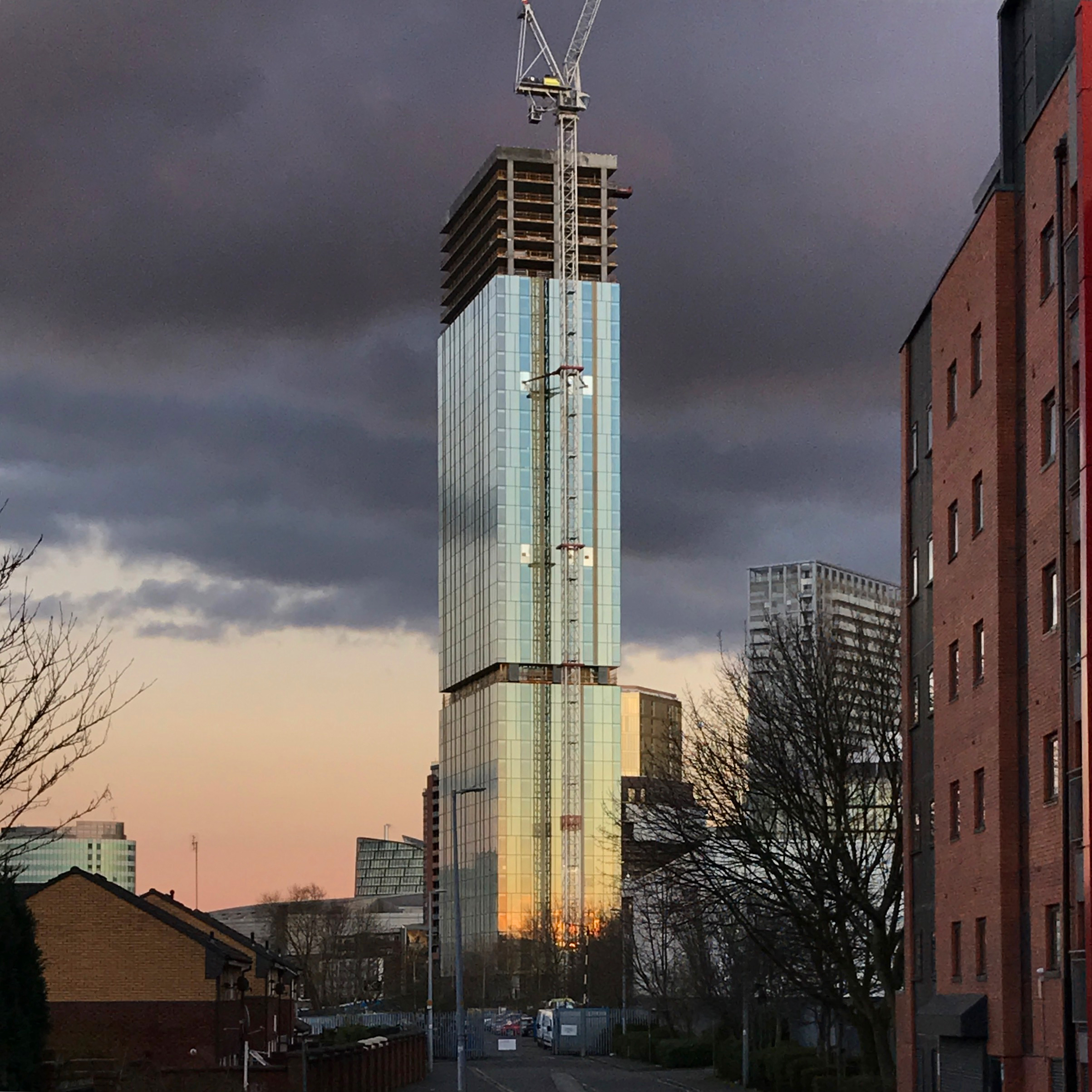 Exchange Court, 2 February 2018